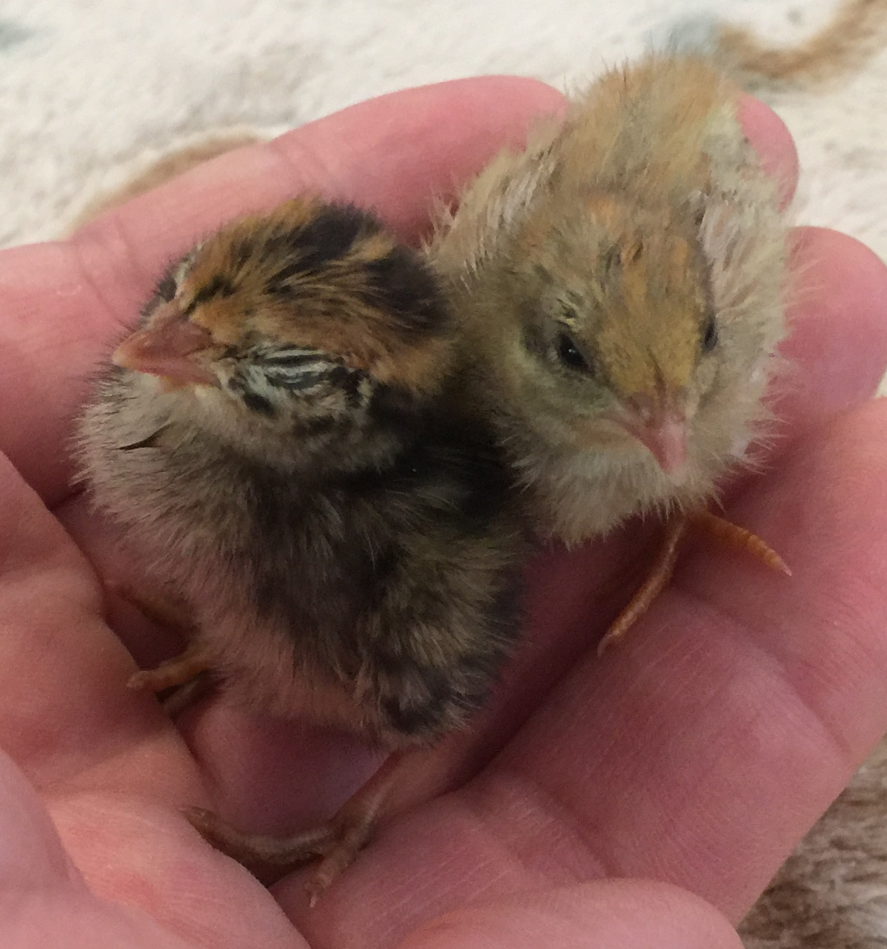 Coturnix japonica day07(right), and Excalfactoria chinensis (King Quail) day20(left)